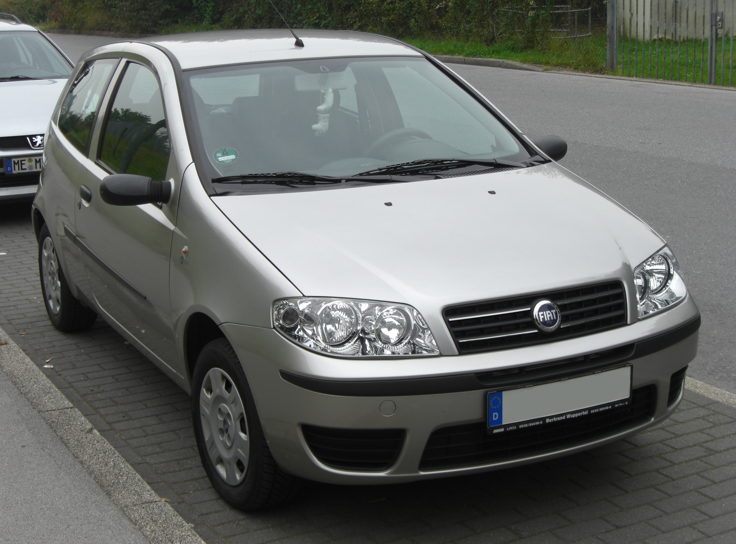 Fiat Punto II